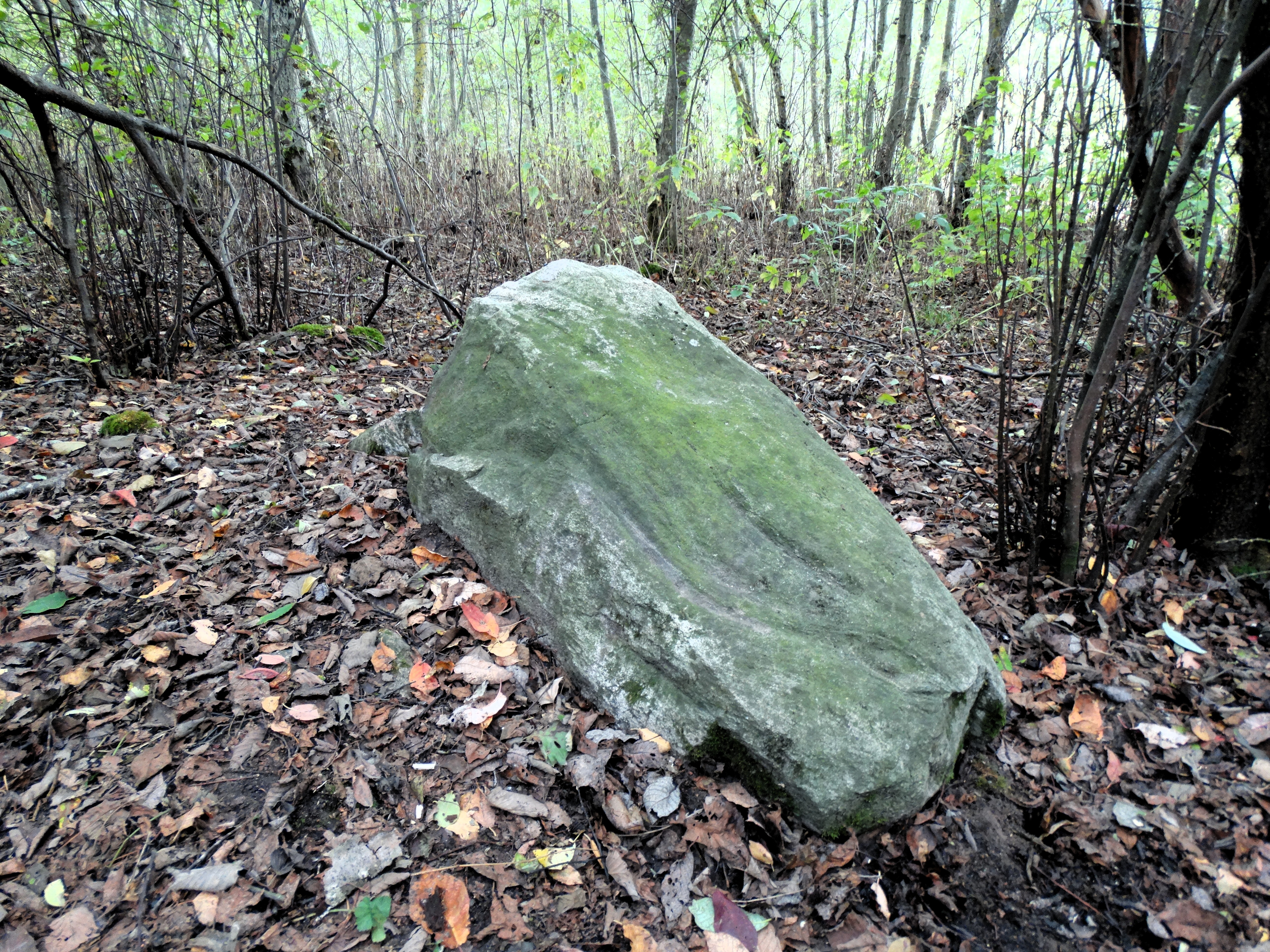 Stone with signs in Žydiškės, Kaišiadorys district, Lithuania